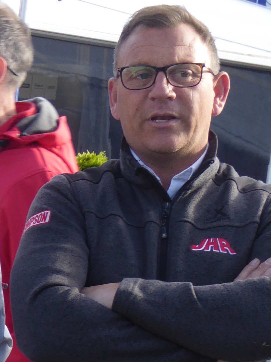 Steven Hunter (JHR Developments team principal), at the Knockhill round of the 2017 British Touring Car Championship.